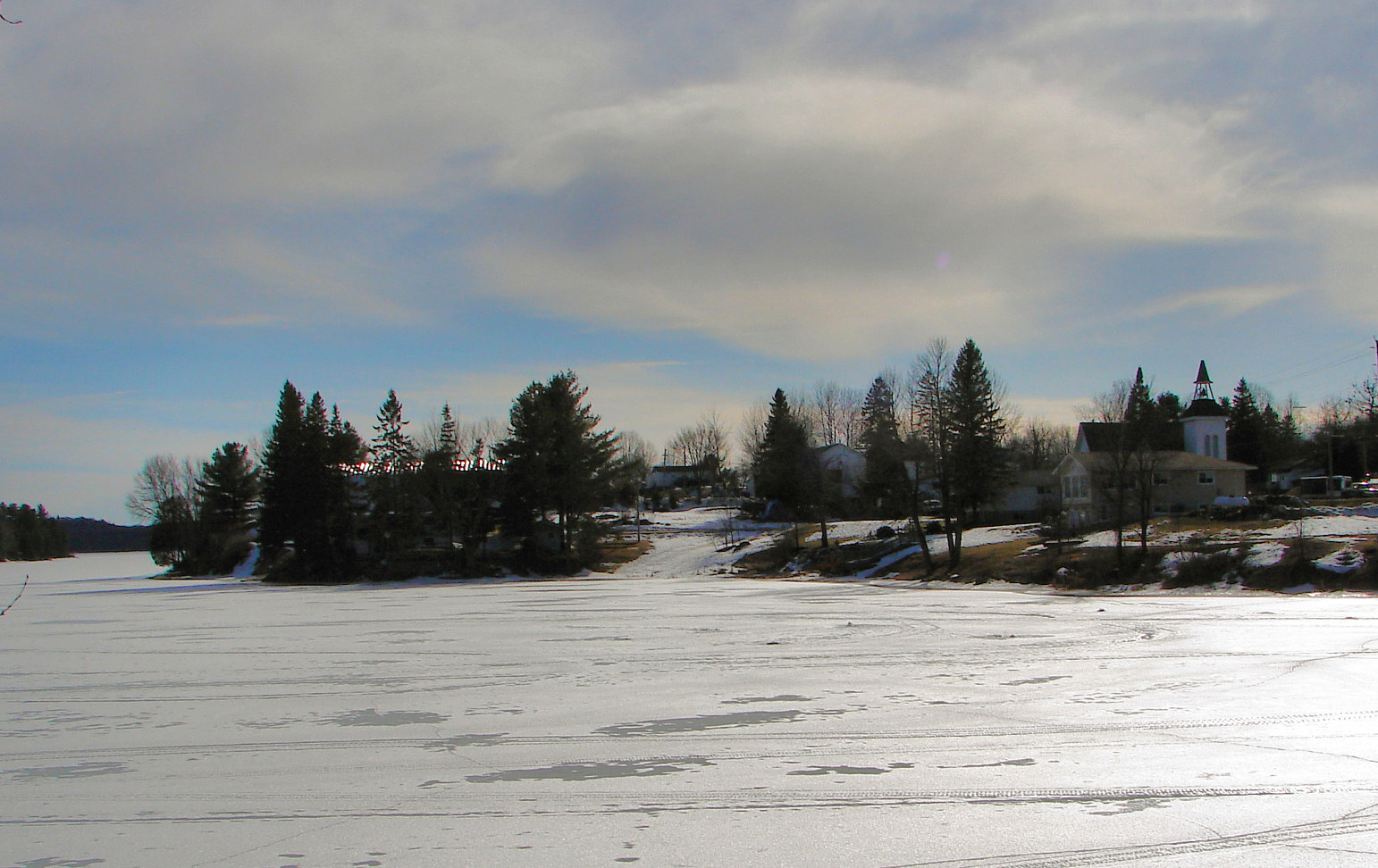 View of Dunchurch (Whitestone Township), Ontario, Canada